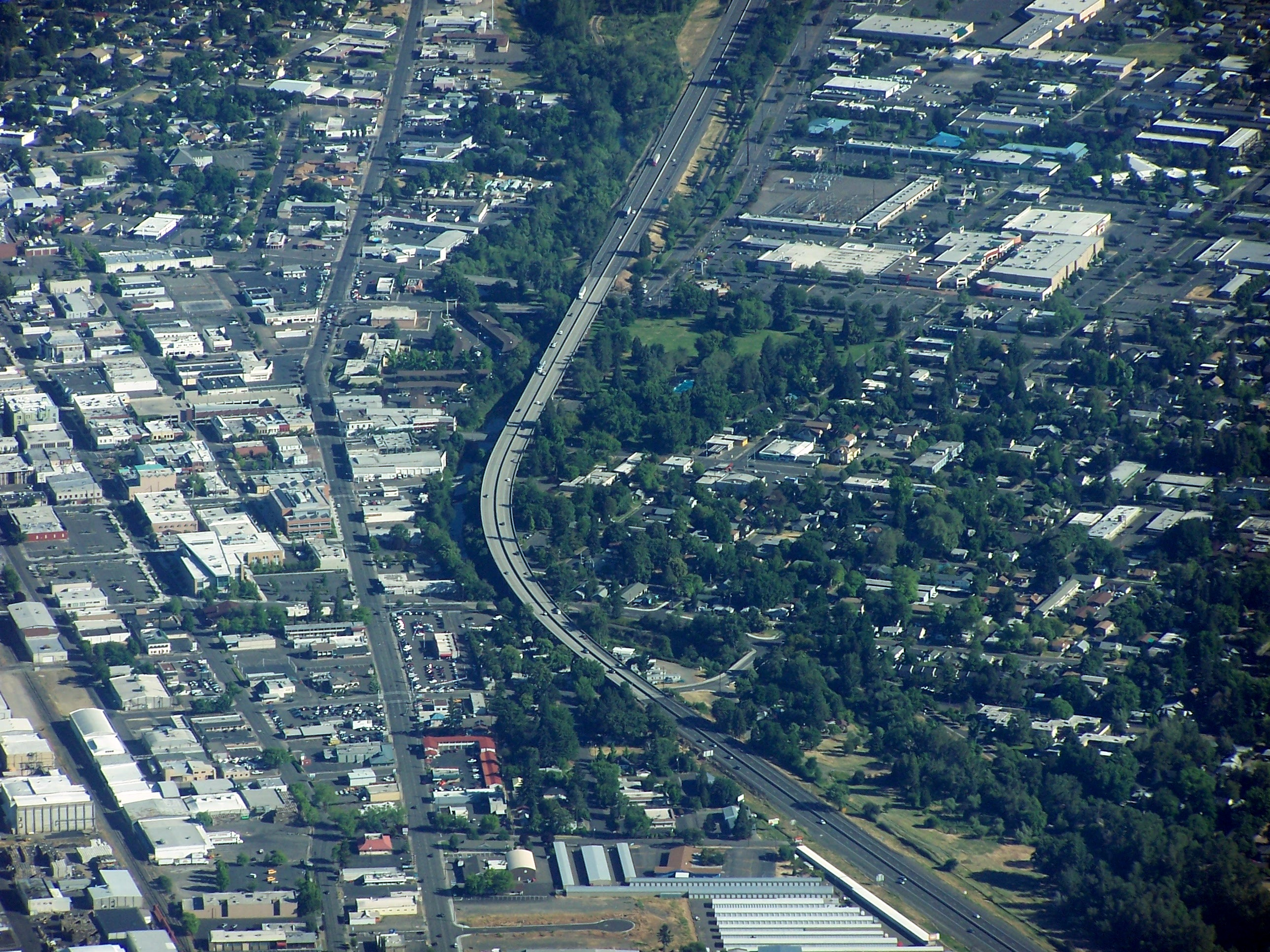 Interstate 5 traveling over a viaduct in Medford, Oregon